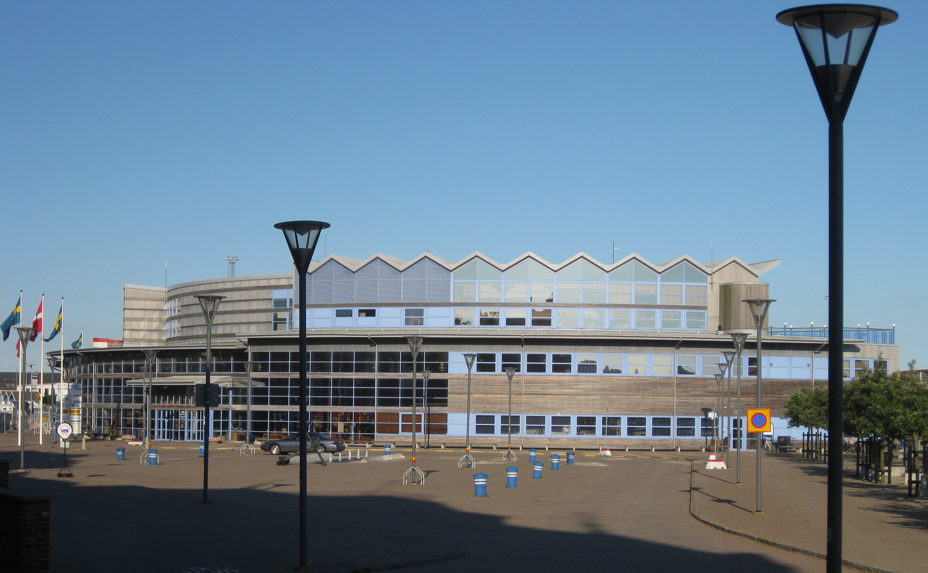 Bornholmerfærgens terminal in Ystad